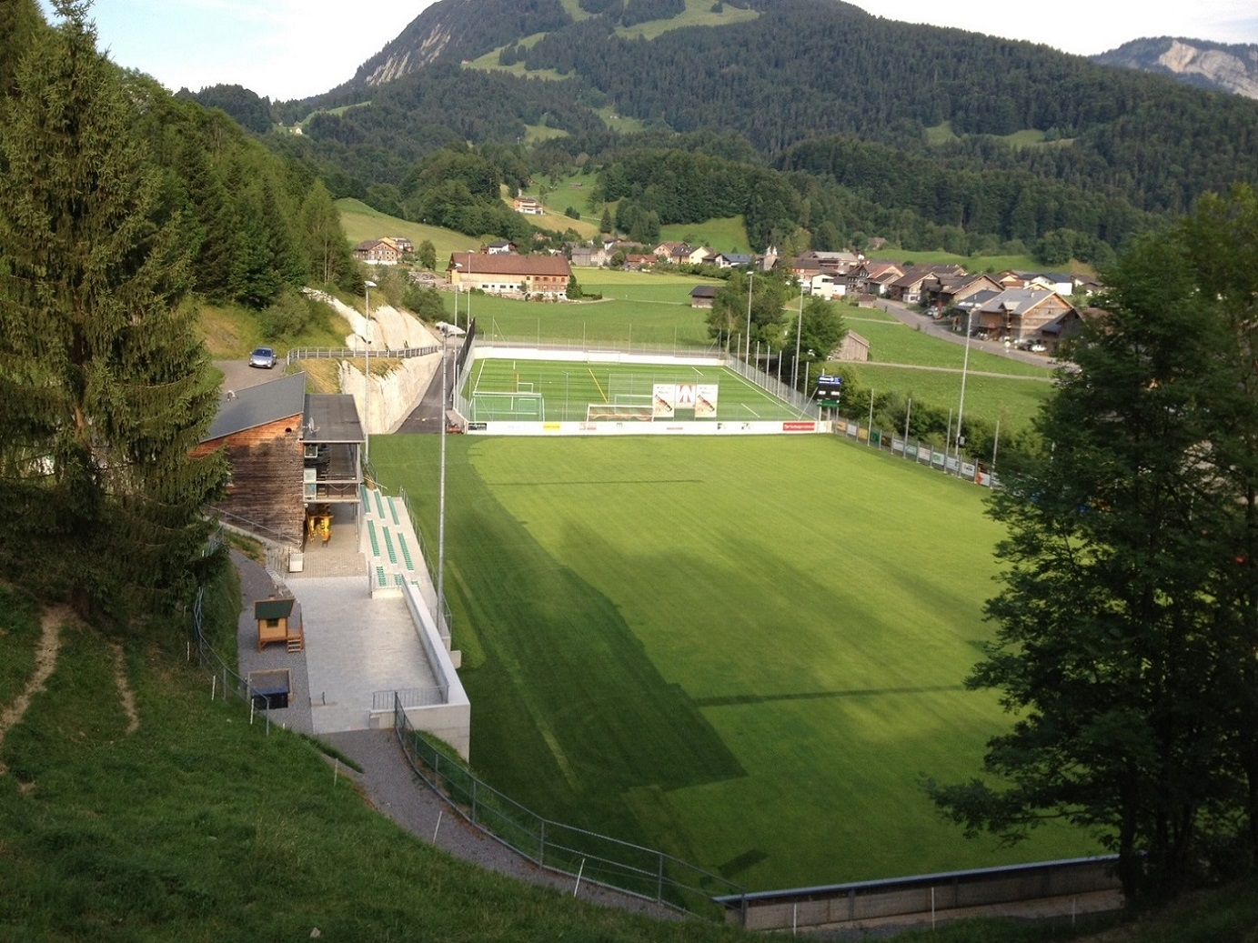 Bergstadion Bizau